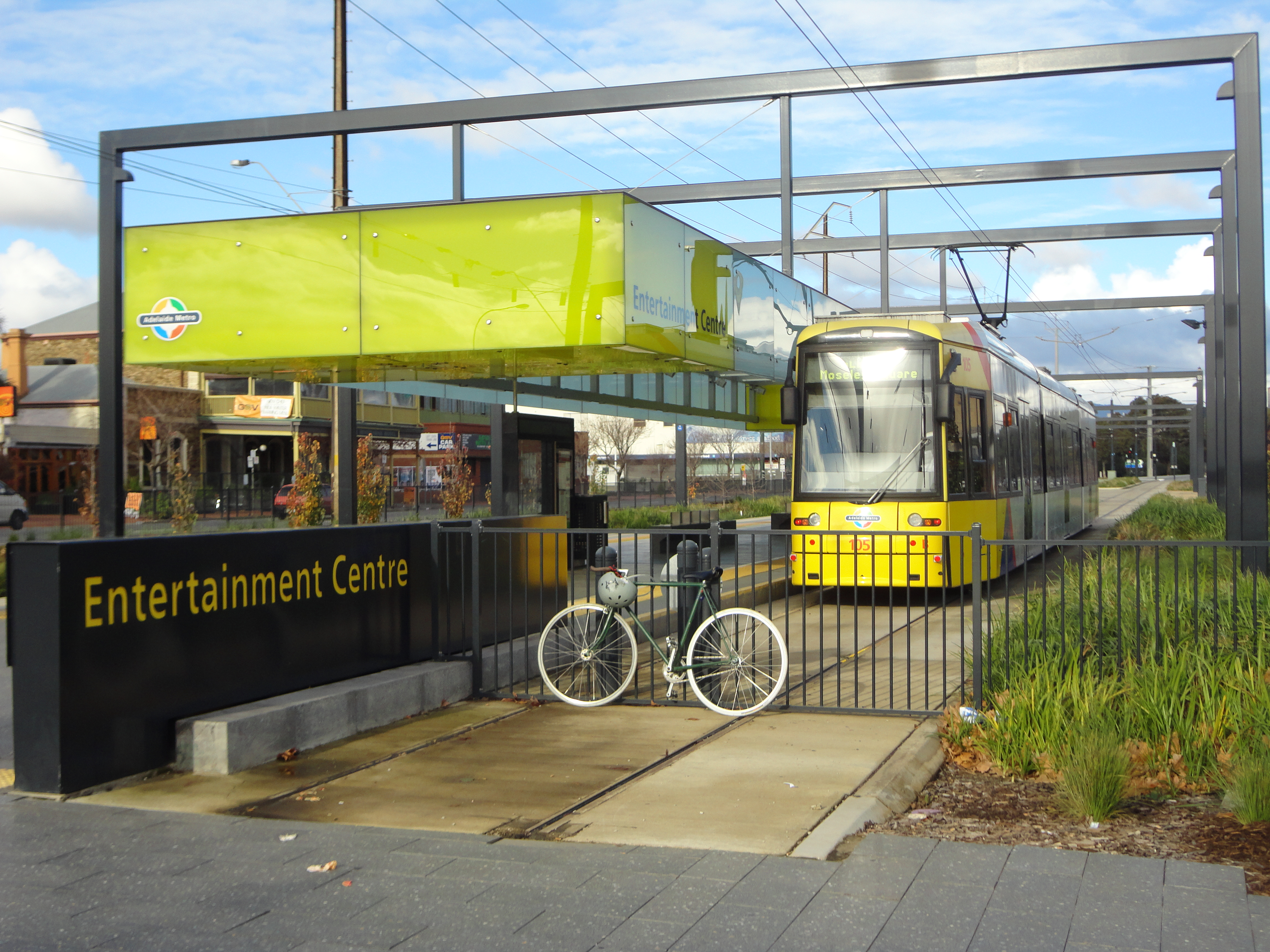 A Flexity Classic Light Rail vehicle at the Entertainment Centre terminus in Adelaide, South Australia.